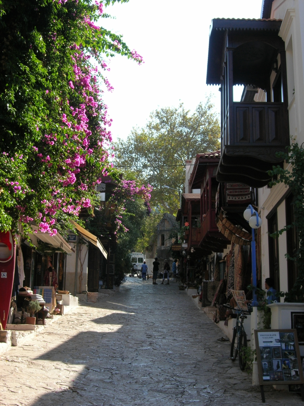 The main road of Kaş (Antalya) with old greek houses and the lycian tomb